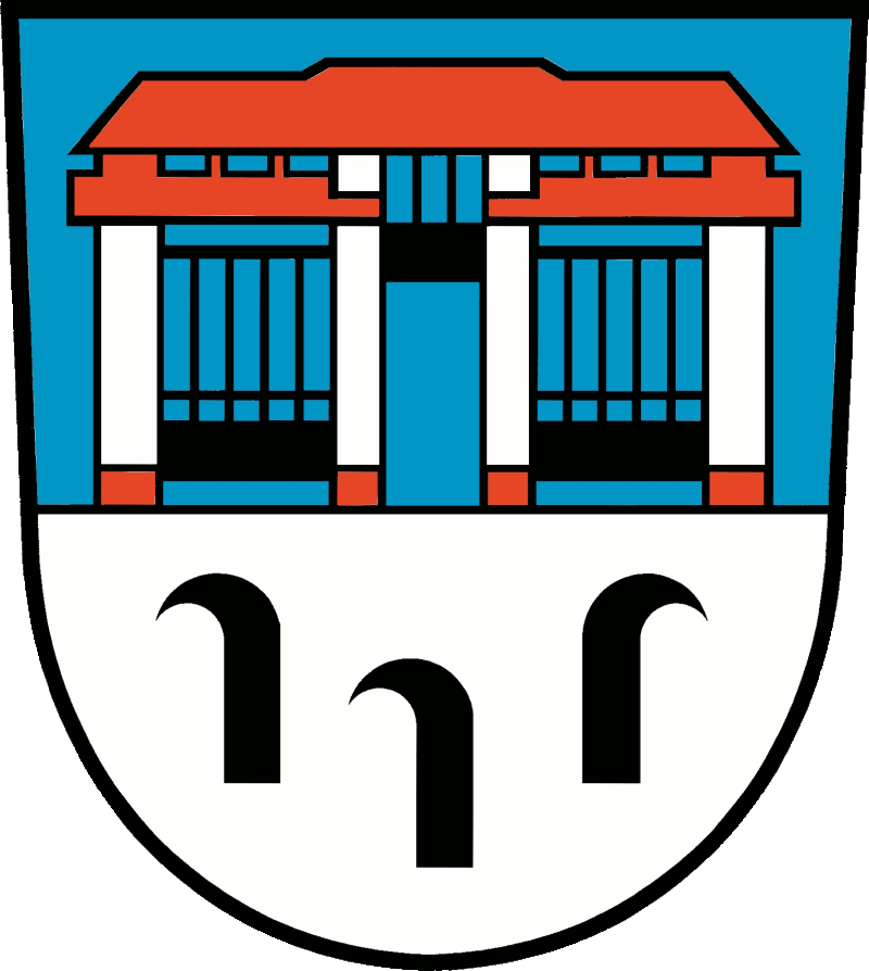 Coat of arms of Kleinmachnow